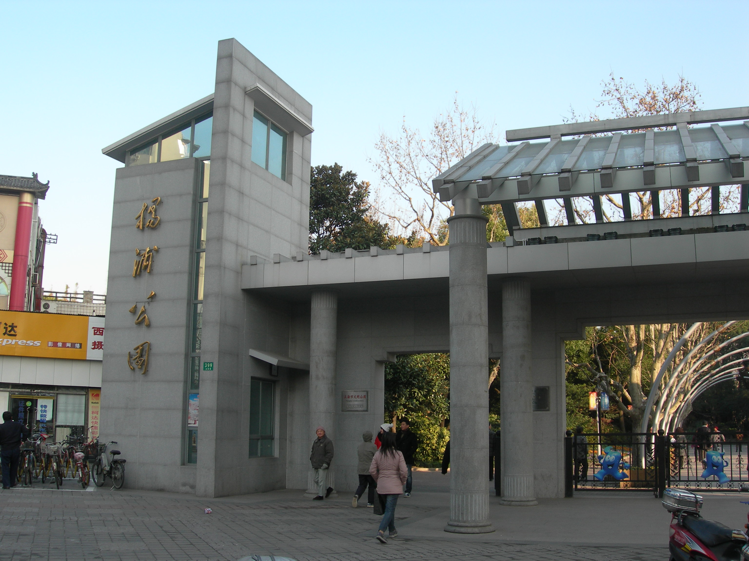 Front entrance to the Yangpu Park in Shanghai (in Yangpu District), with sign clearly displayed.